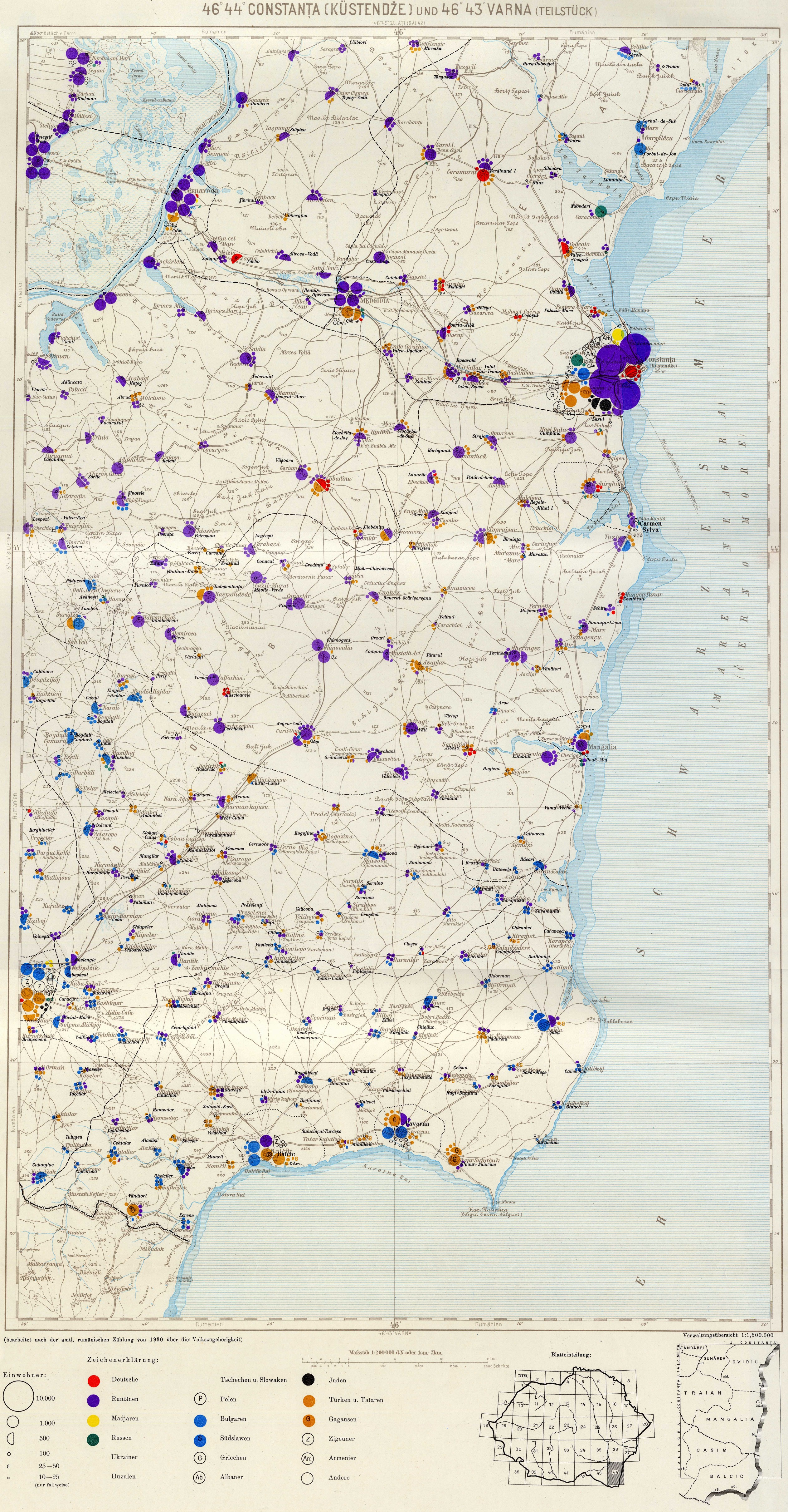 Ethnic map (of this map) according to the Romanian census 1930.